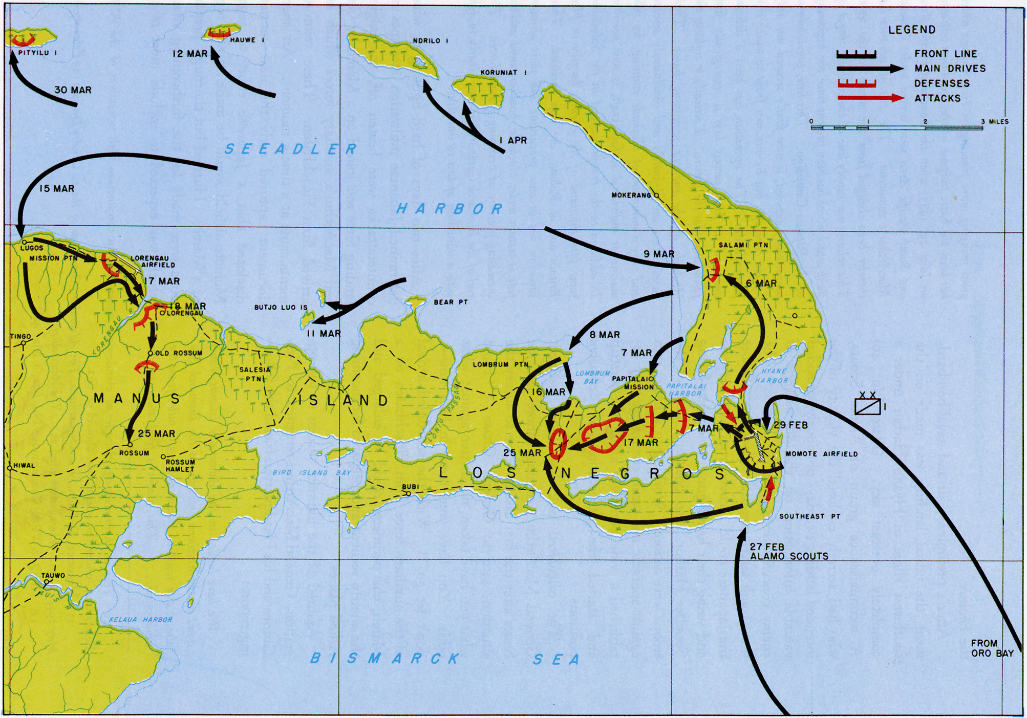 Admiralty Islands Campaign